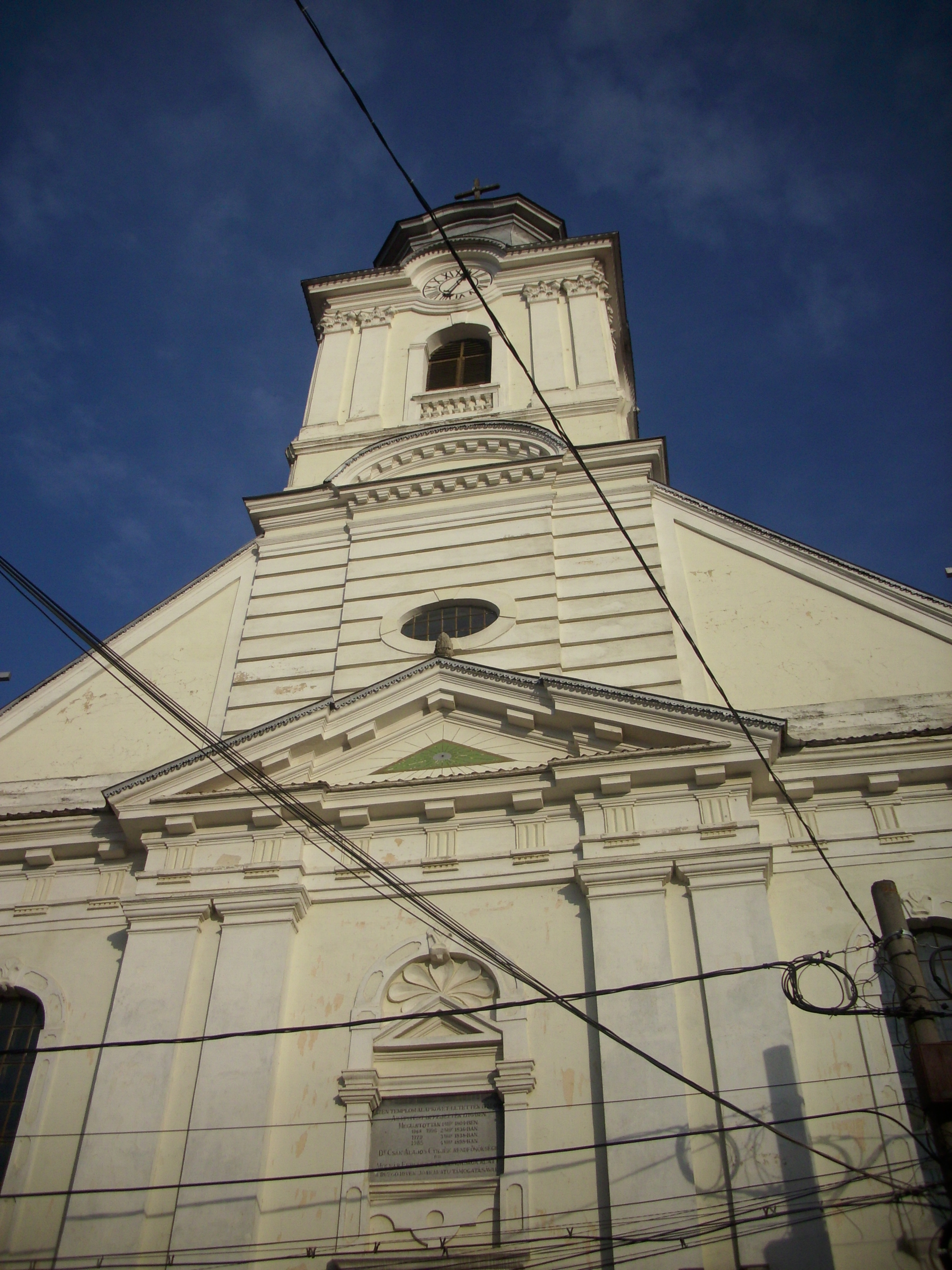 It's a catholic church which was built between 1722 and 1795. This photo was taken in 2013 september. 01